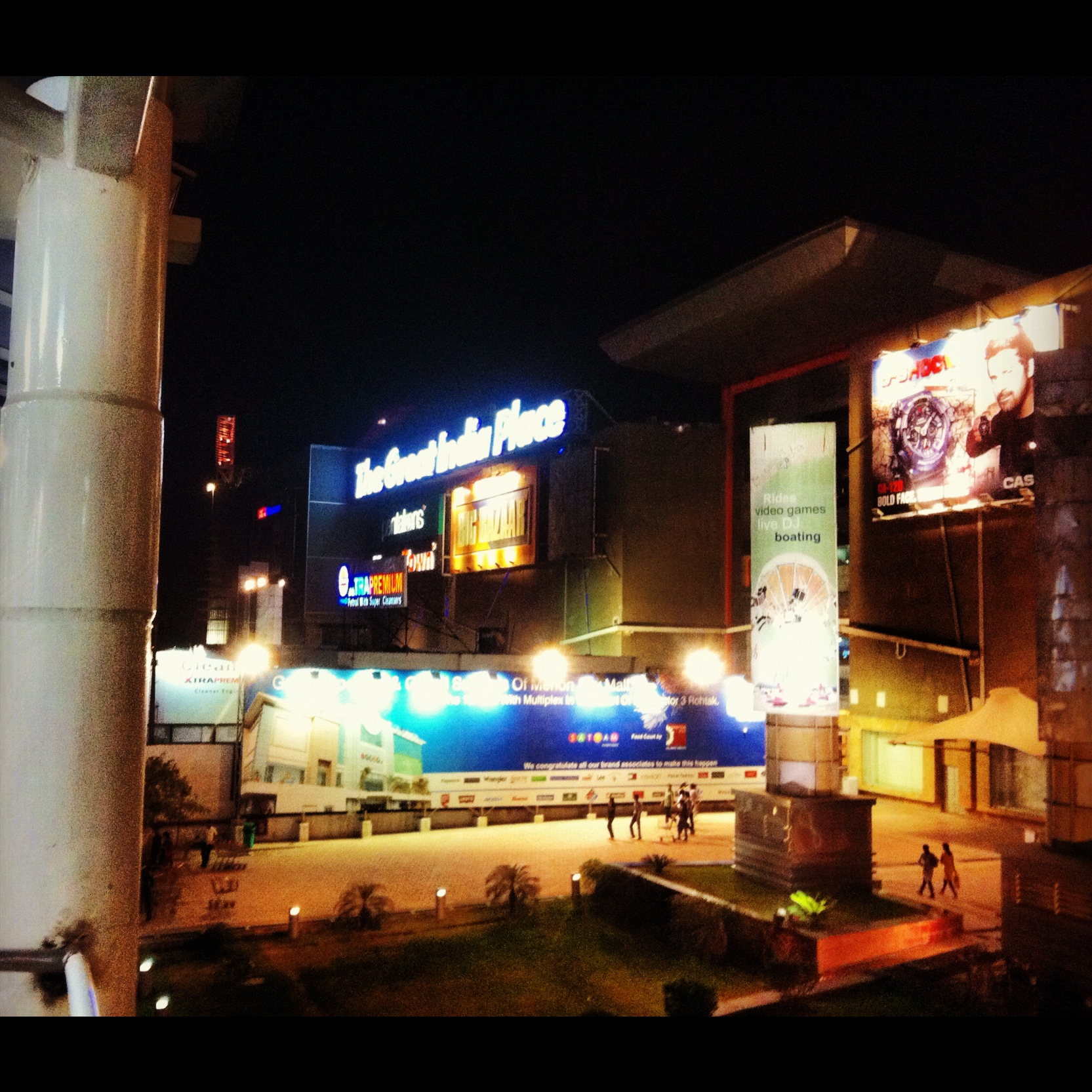 The Great India Place mall in Noida